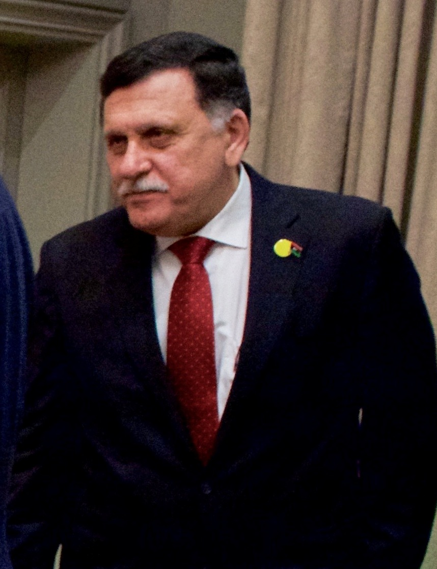 Libyan Prime Minister Fayez al-Sarraj.